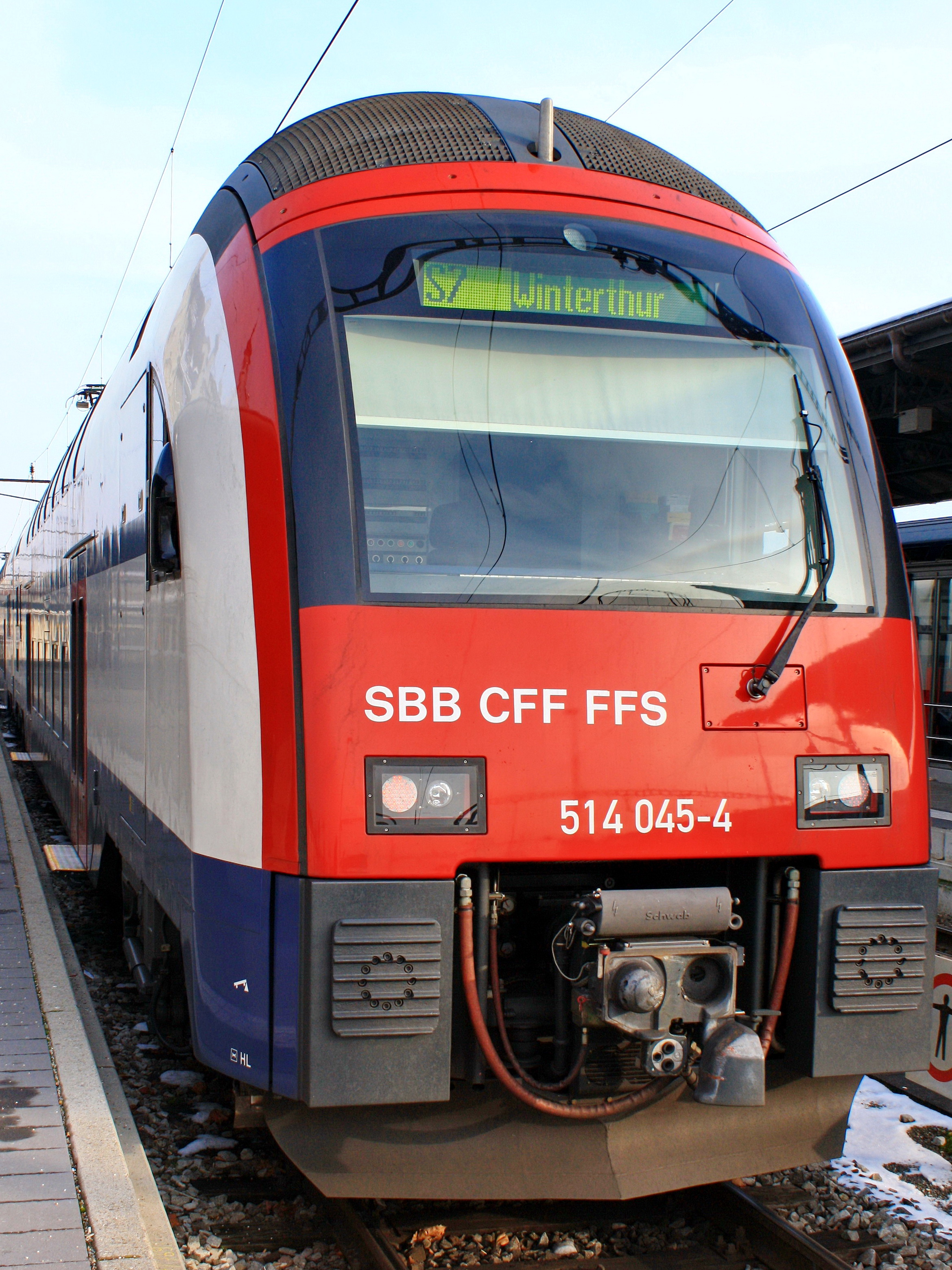 SBB RABe 514 of the S-Bahn Zürich's S7 line at the train station in Rapperswil (Switzerland).